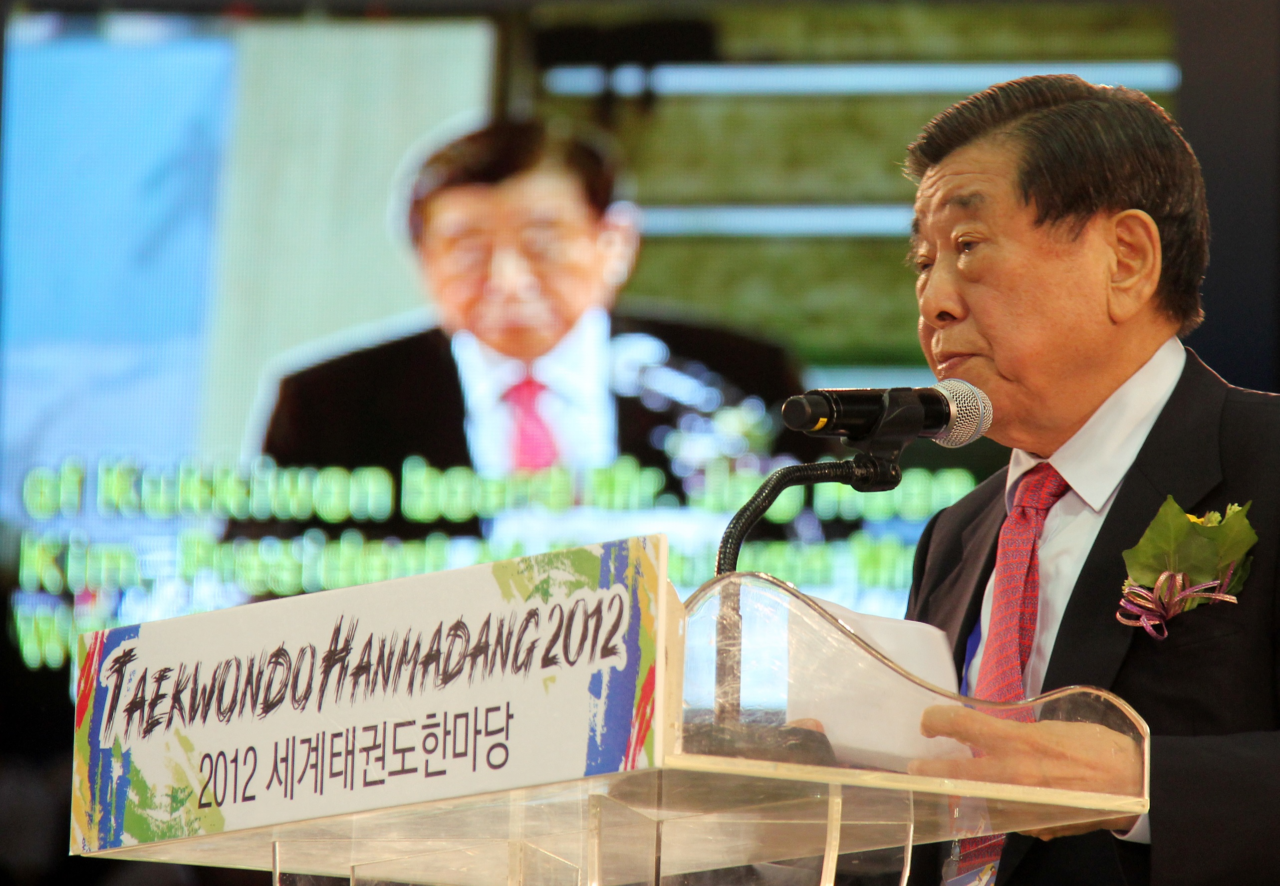 Kim Unyong in 2012 World Taekwondo Hanmadang, Seoul.